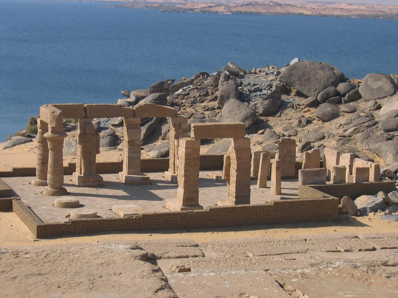 The free standing courtyard of Gerf Hussein temple in New Kalabsha. This temple was erected by the Viceroy of Kush, Setau, on behalf of pharaoh Ramesses II in Lower Nubia. Setau was also responsible for constructing the temple of Wadi es-Sabua.